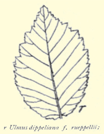 Adapted from page 215 of Illustriertes Handbuch der Laubholzkunde